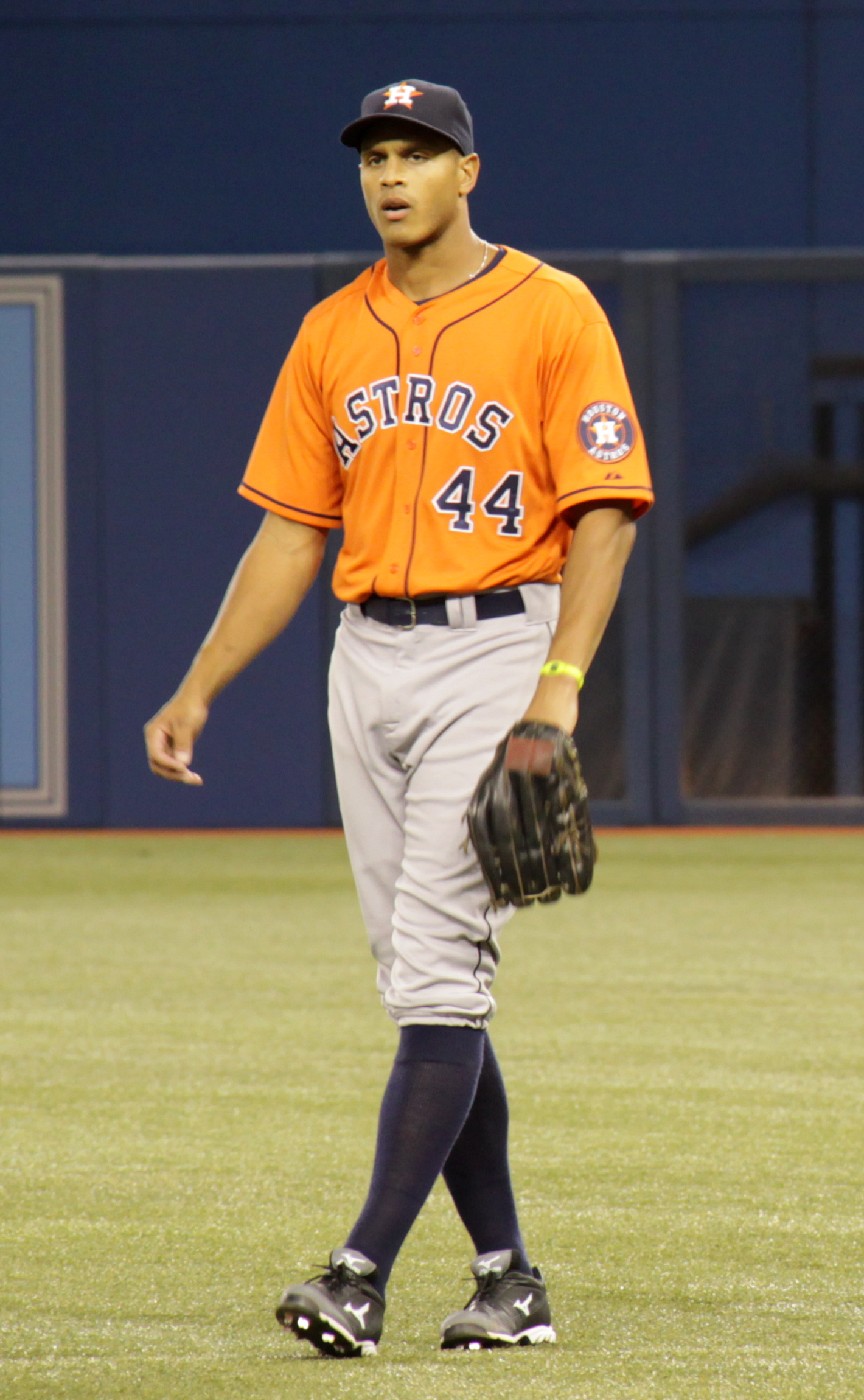 Justin Maxwell. Taken on July 27, 2013 Commons upload by UCinternational (talk) 12:29, 8 August 2013 (UTC)